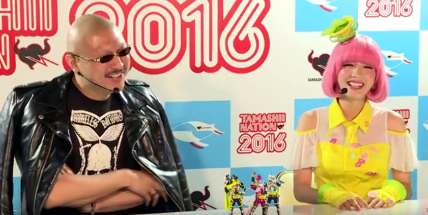 Mafia Kajita, writer, and Poppy Pipopapo, Character of the Kamen Rider Ex-Aid, attended the Tamashii Nation 2016 at Akihabara UDX in Chiyoda Ward, Tōkyō Metropolis on October 28, 2016.